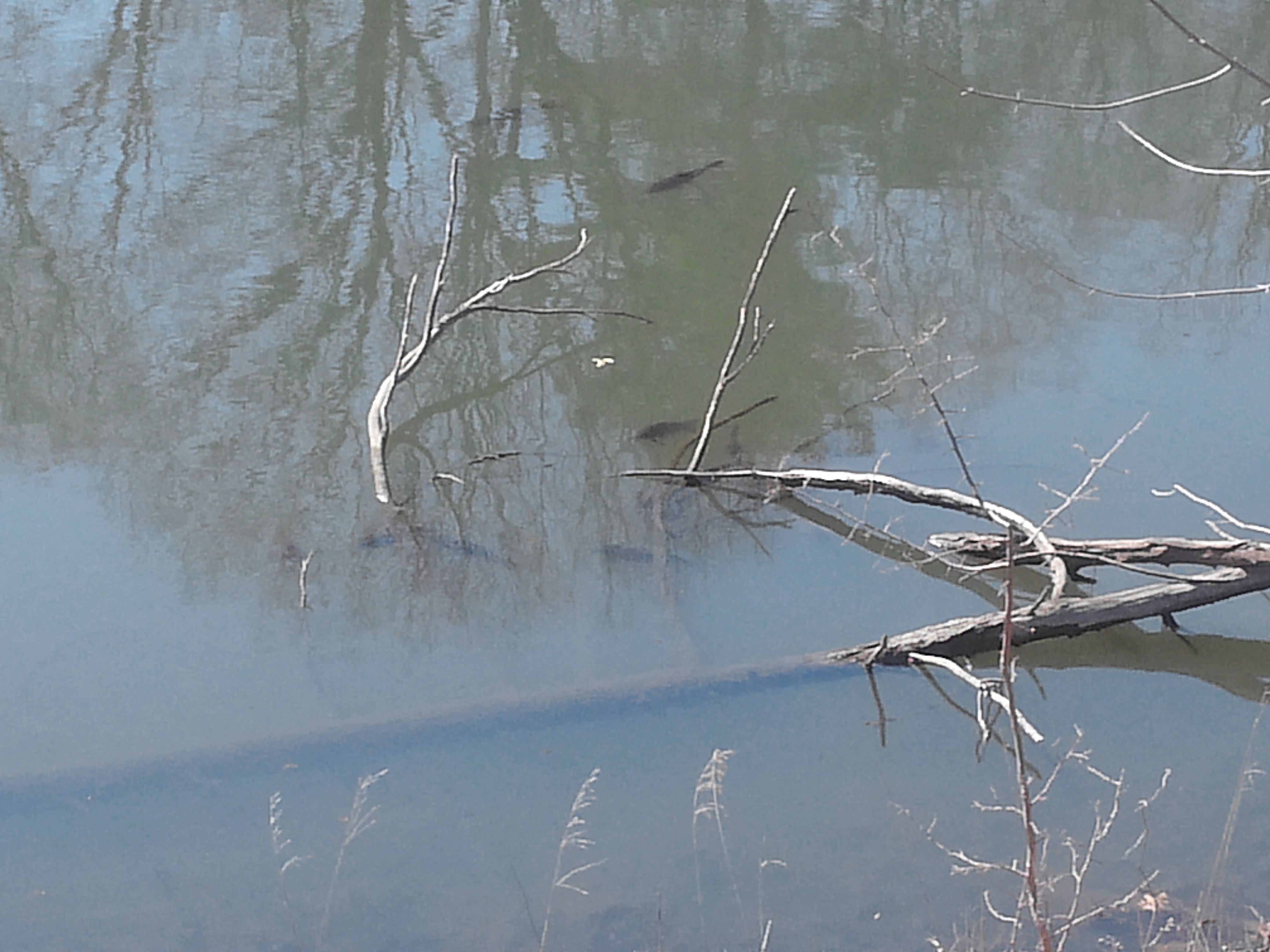 Fish in Vassar Lake on the campus of Vassar College in the town of Poughkeepsie, New York, US.